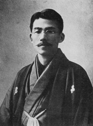 Mr. Daisui Sugitani.